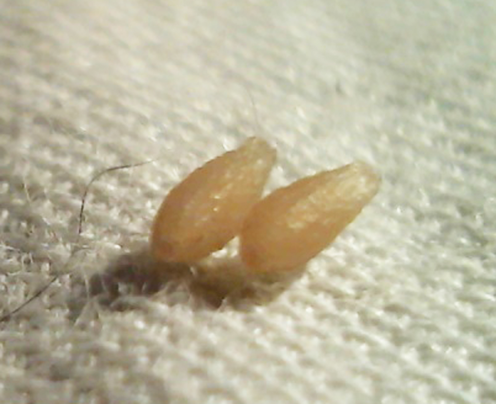 A picture of a pair of desiccated tapeworm proglottids (not oncospheres)